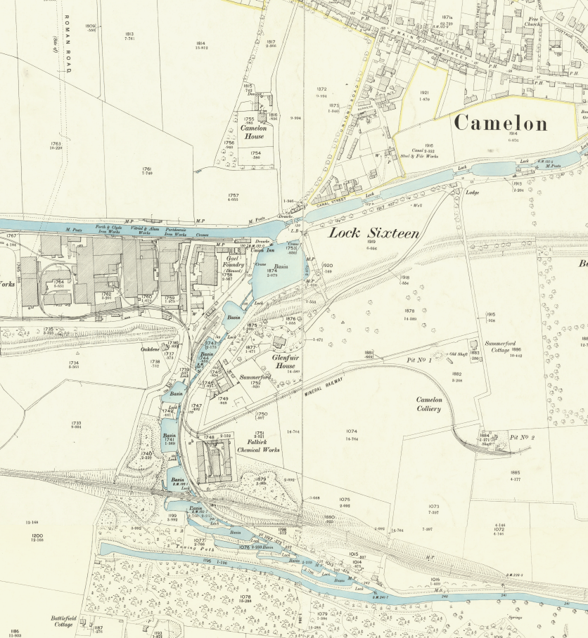 Part of OS sheet XXX.2 showing the flight of canal locks at Falkirk and a section of the Antonine Wall between Rough Castle and Camelon at a scale of 1:2,500 or about 25 inches to one mile. Second Edition, 1897